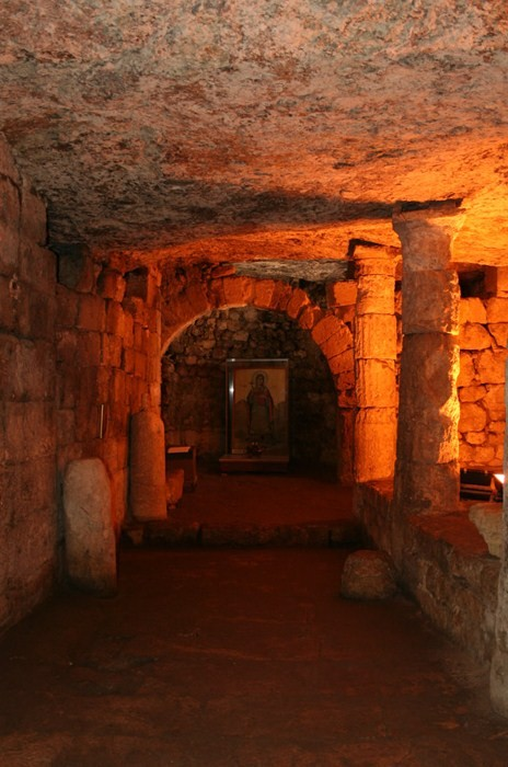 Martyrium of Saint Thecla, at Silifke, Ayatekla (Turkey)